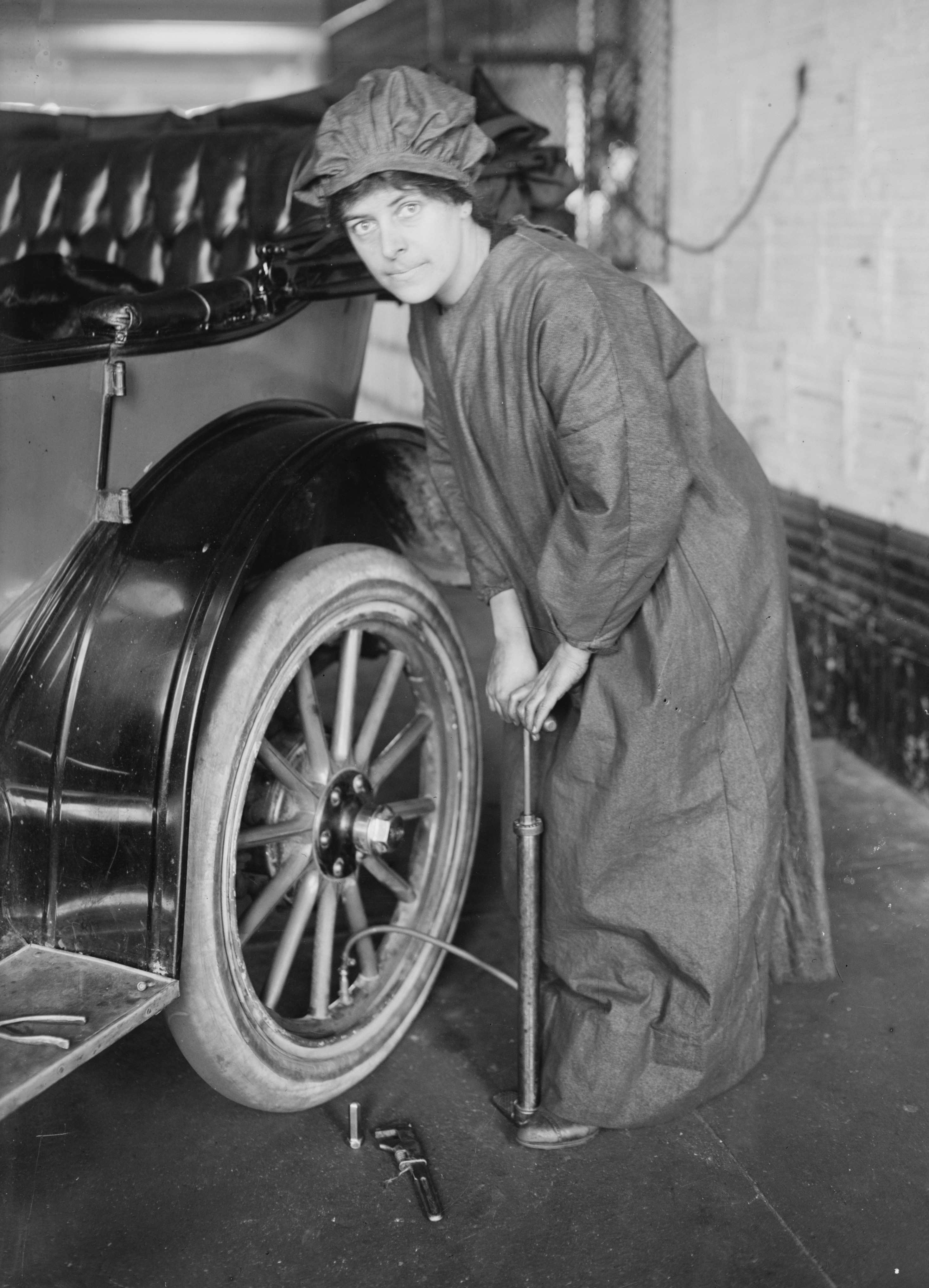 Rosalie Jones in a circa 1910-1915 photograph.